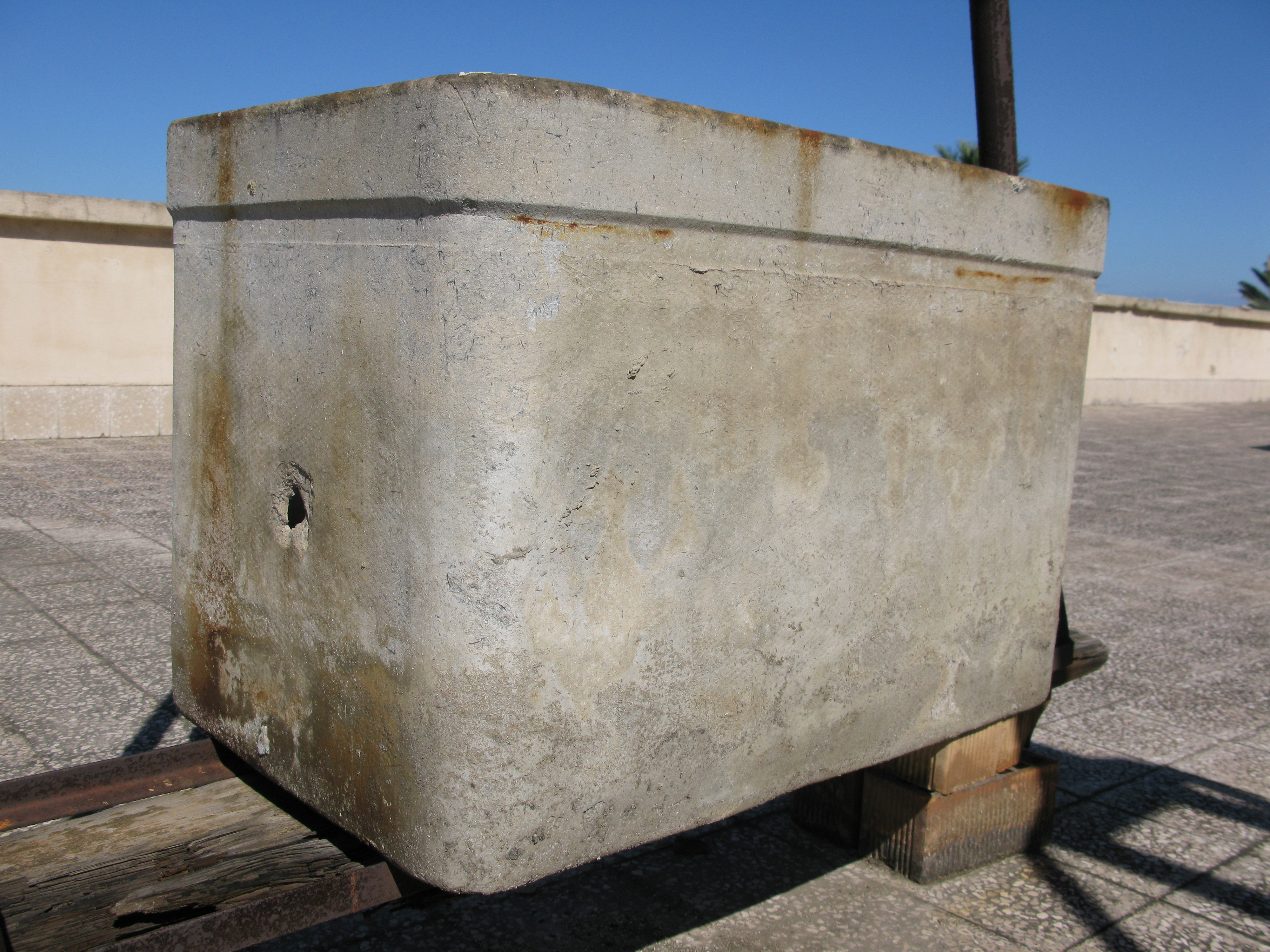 Eternit water tank